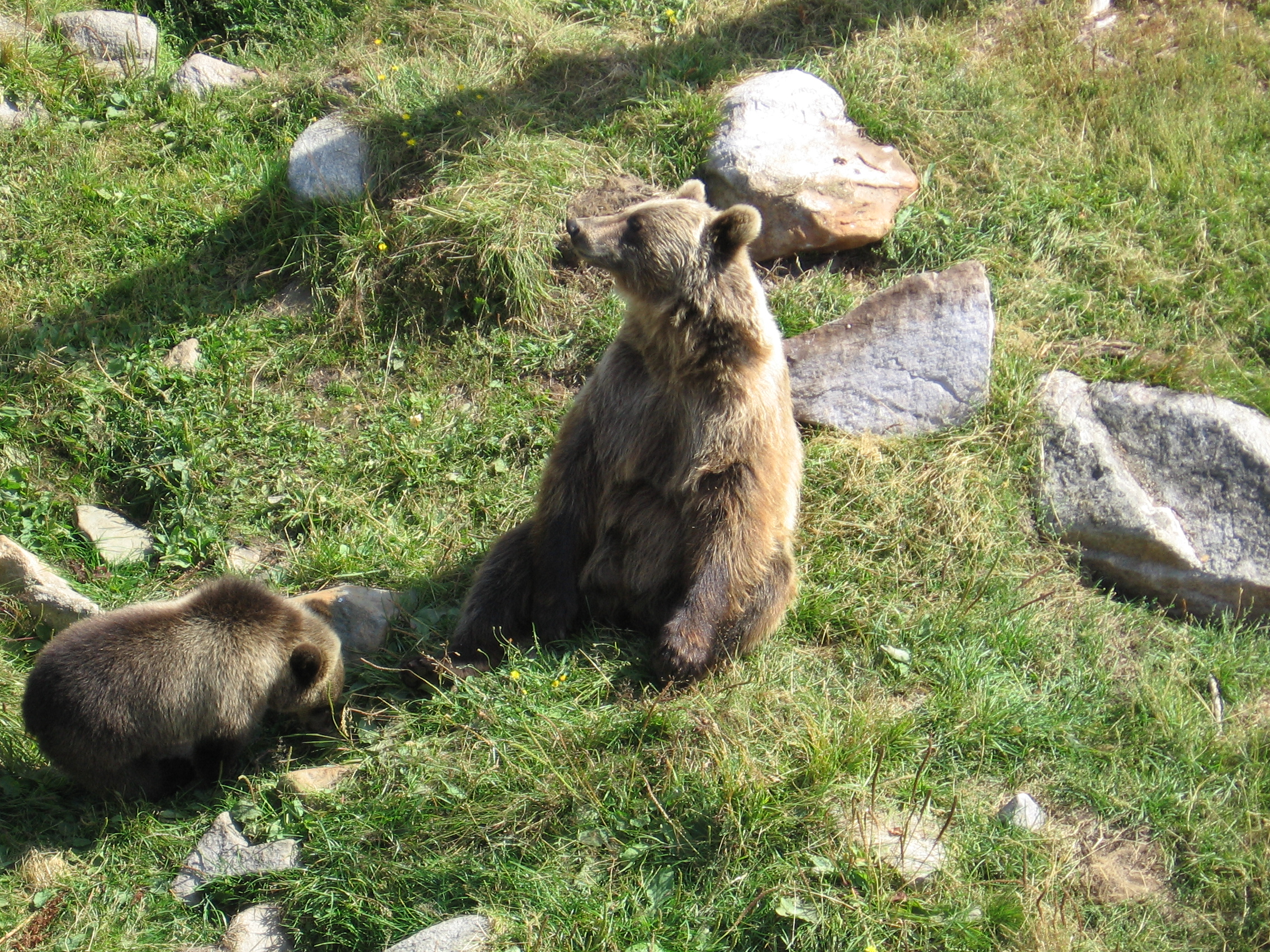 Eurasian Brown Bears (Ursus arctos arctos) at Ranua Zoo in Ranua, Finland